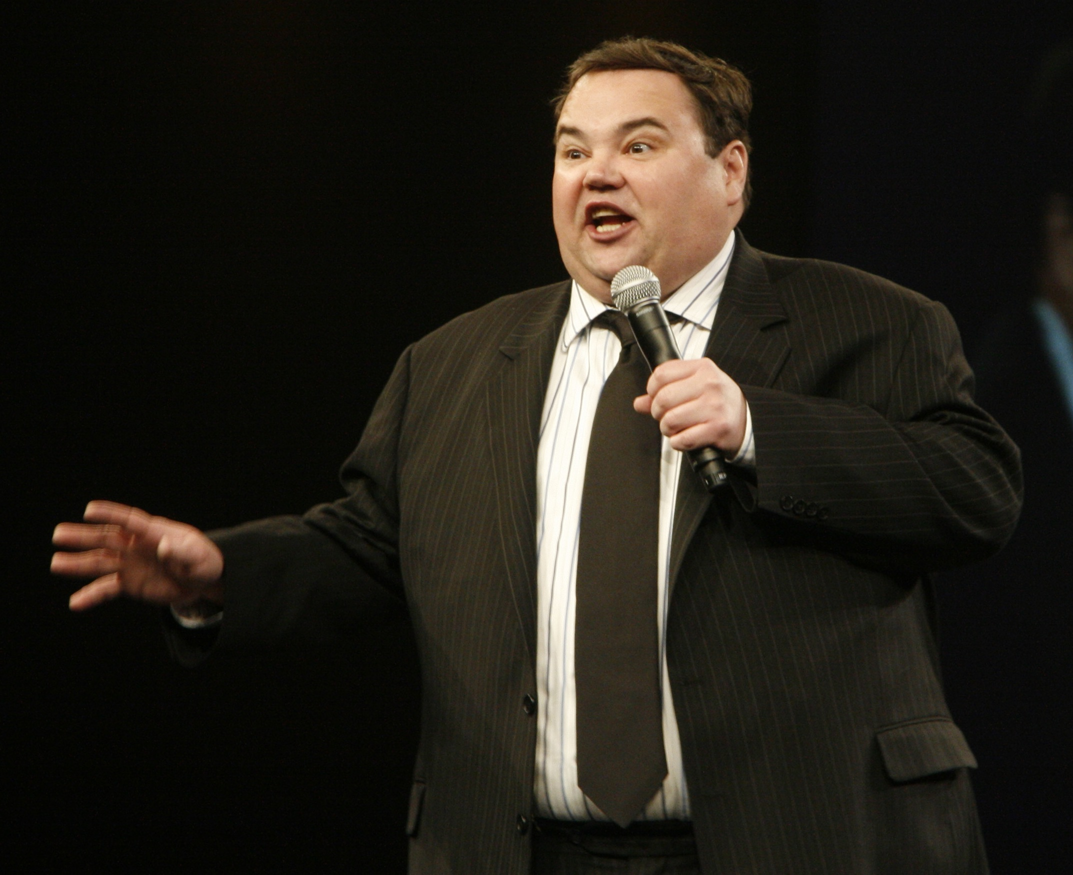 Comedian John Pinette at the 2010 Leukemia Ball